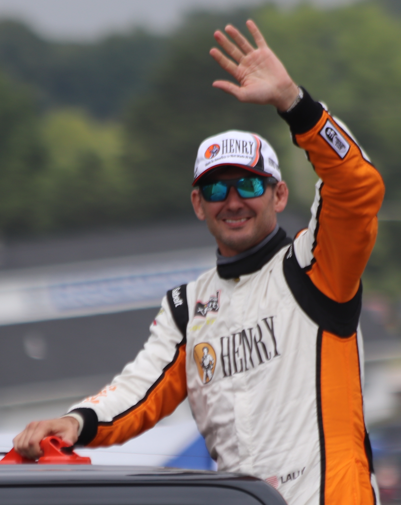 NASCAR Xfinity Series driver Andy Lally waves to fans at the 2018 Road America race.